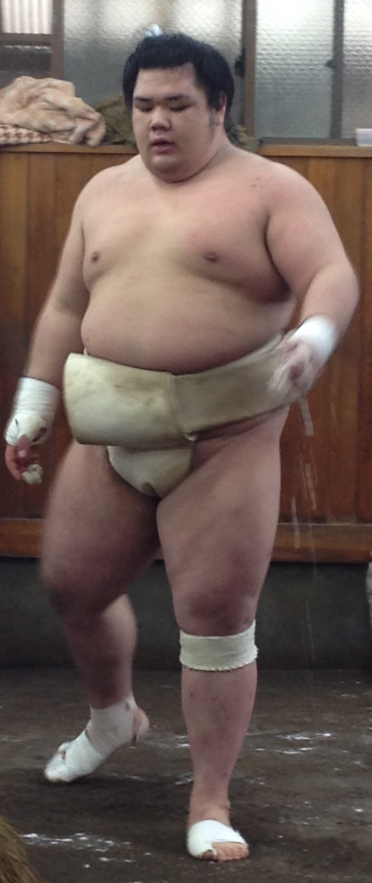 Taken at training in Onomatsu stable December 2014